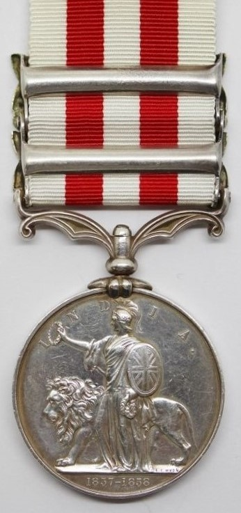 British Campaign Medal for those who helped suppress the Great Mutiny in India, 1857-58.